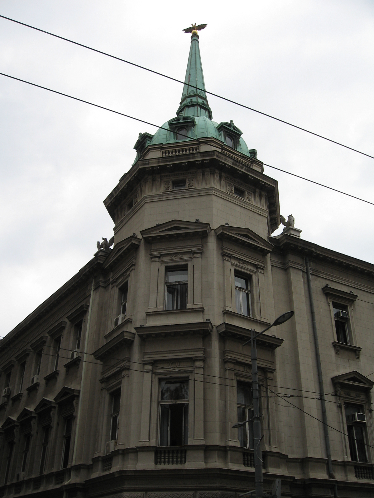 Dome of Old Court in Belgrade